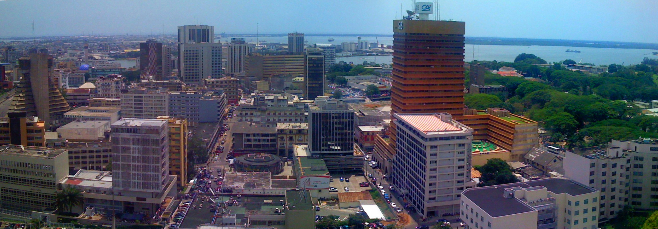 Skyline view of Plateau District buildings and the Ébrié Lagoon, in Abidjan, Côte d'Ivoire.